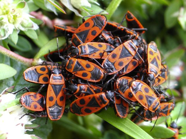 Cluster of Spanish firebugs Pyrrhocoris apterus